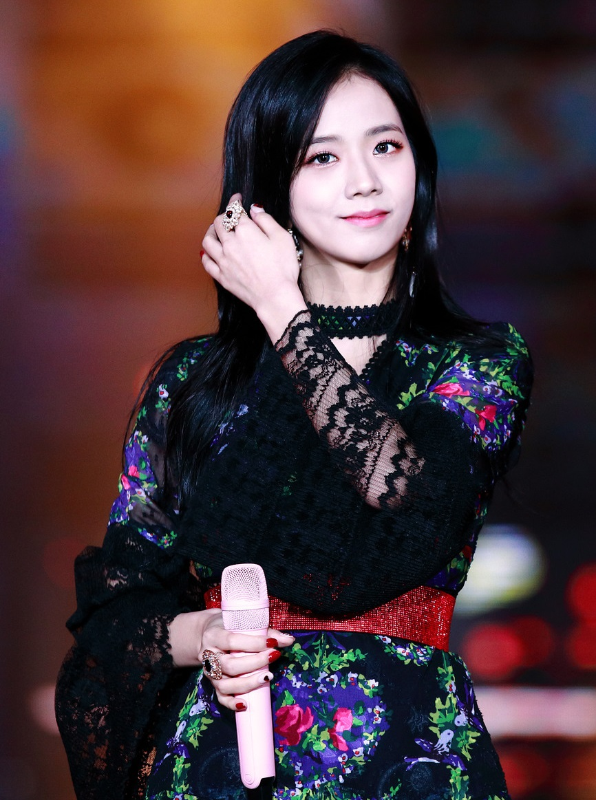 Jisoo at Korea Music Festival on October 01, 2017.